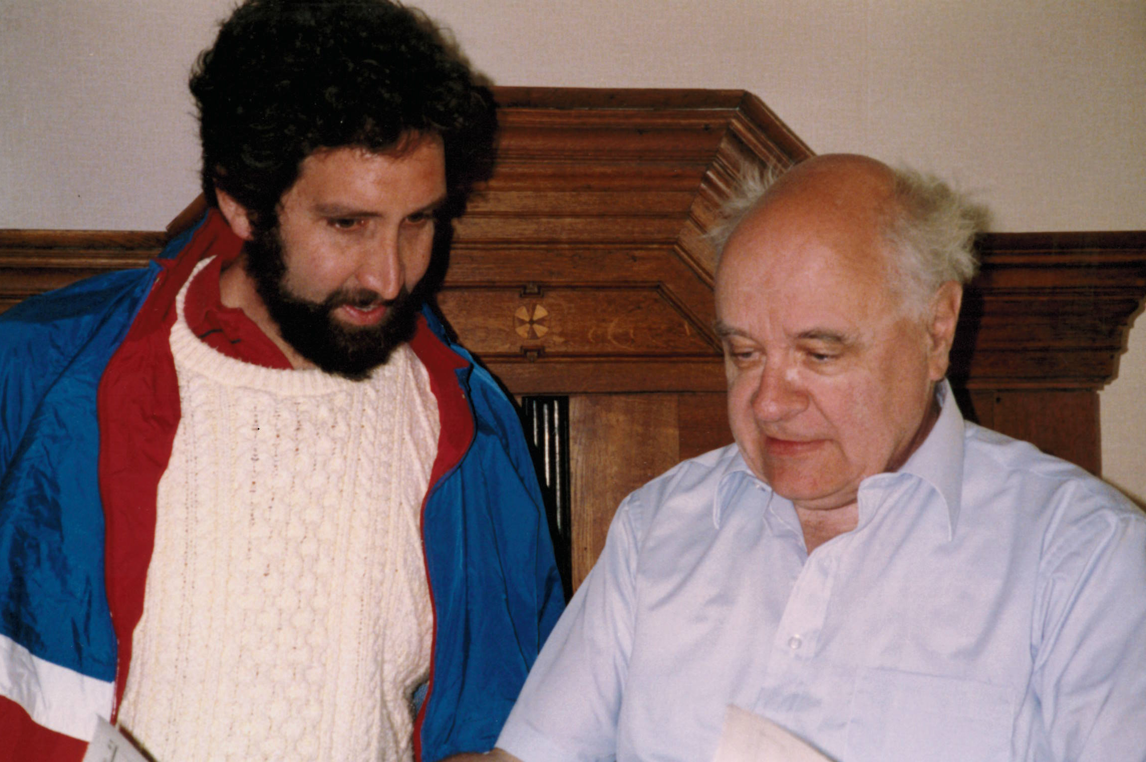 Michael I. Miller and Ulf Grenander standing in the library of Mittag-Leffler Institute in Stockholm, Sweden during the mid 1990s.